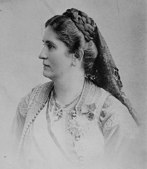 Queen of Montenegro